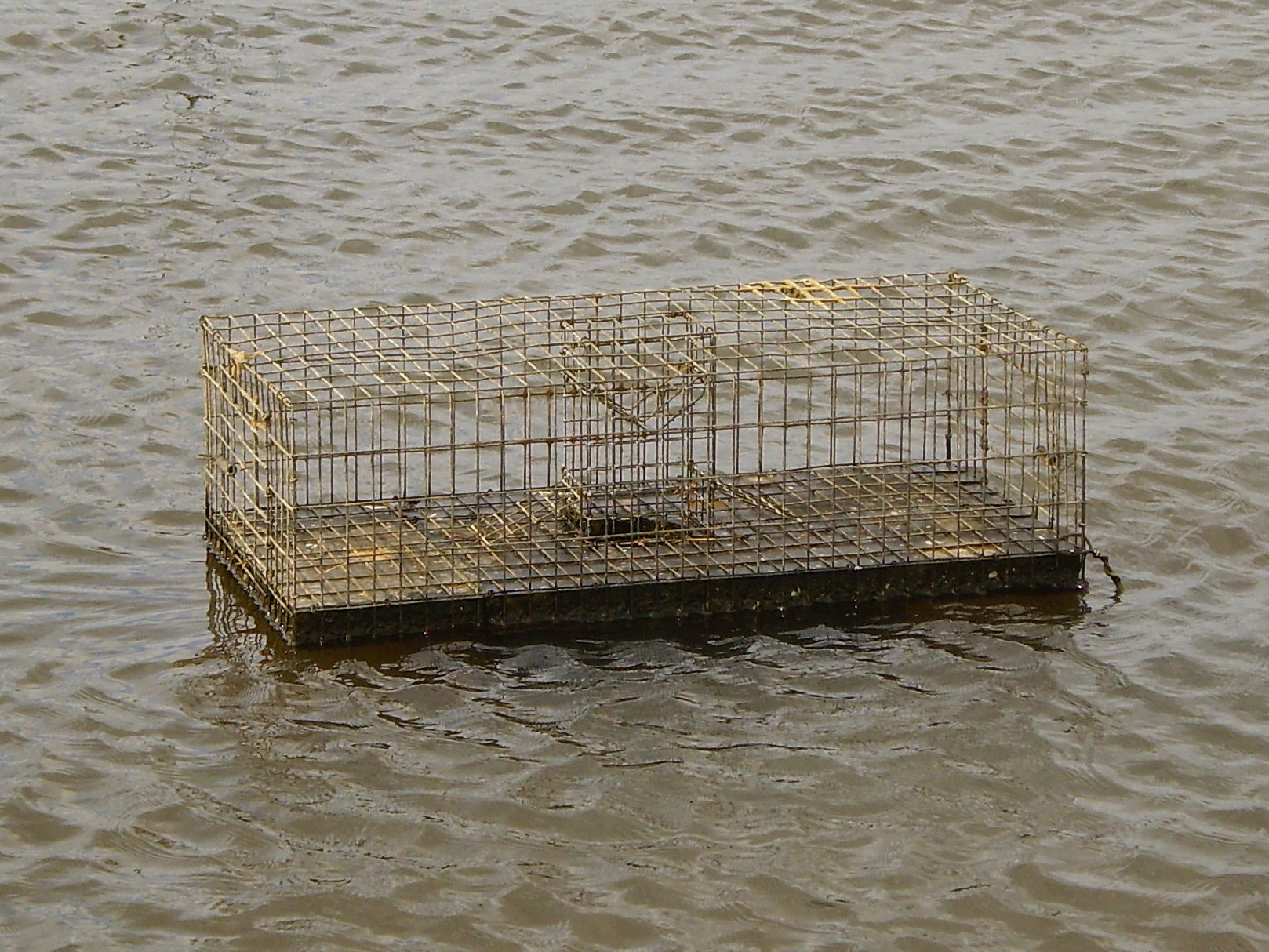 Muskrat trap near Zutphen, NL